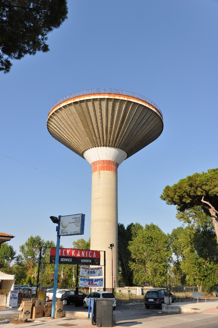 Borgo Sabotino foce Dieses Foto entstand in Zusammenarbeit mit Stadtbesichtigungen.de Die Seiten Stadtbesichtigungen.de, der dazugehörige Reise Blog sowie die Facebookseite: Stadtbesichtigungen Rom dürfen dieses Bild für Ihre Veröffentlichungen ohne den Hinweis auf Wikipedia, Commons bzw der Lizenz verwenden. Die Verantwortlichen habe von mir (Ra Boe) die Originaldaten zur freien Verfügung übermittelt bekommen.